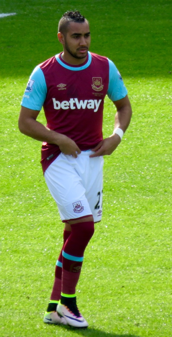 West Ham United player Dimitri Payet playing against Crystal Palace at the Boleyn Ground, in the Premier League.